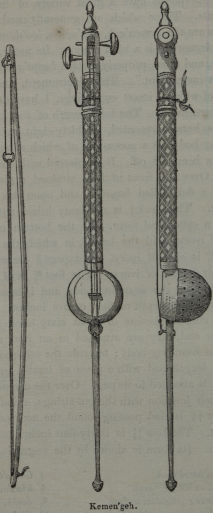 Two views of viols with pierced cocoa-nut bodies and one view of a bow. Engraving (prints).